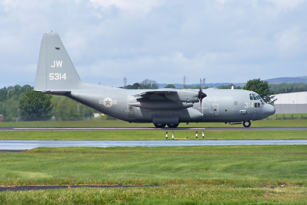 165314 C-130T Hercules US Navy